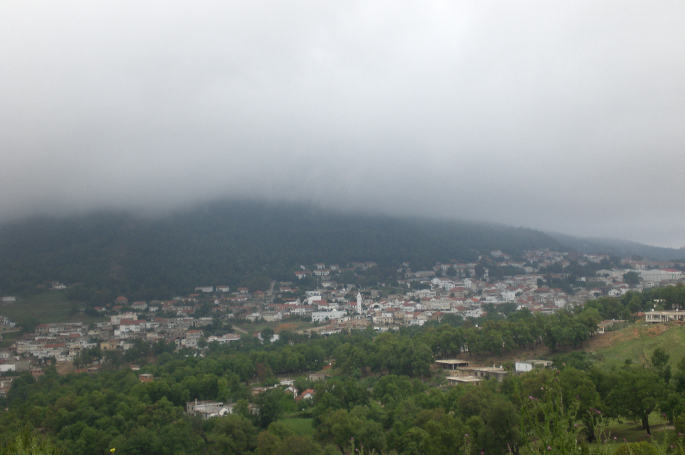 The town of Ain Draham under fog